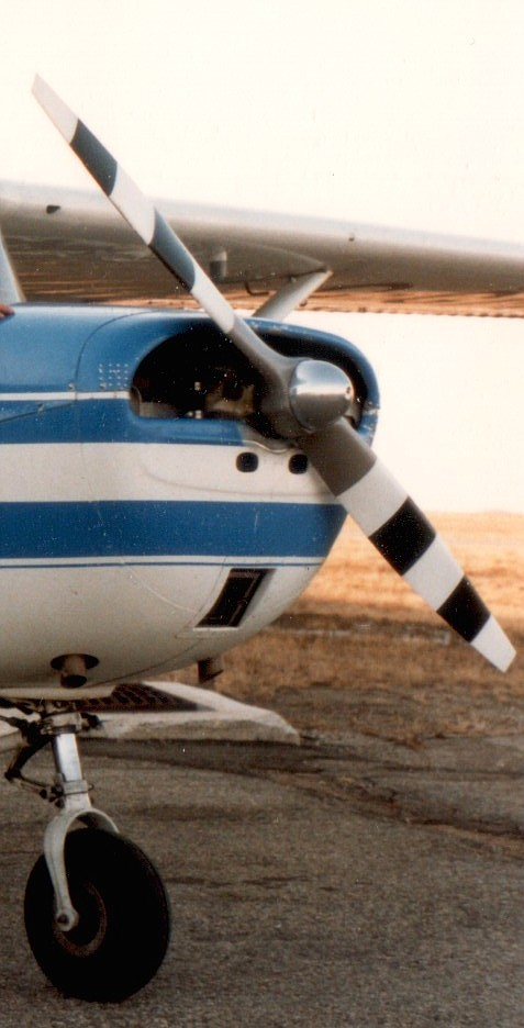 A Cessna 150G wit a "skull cap" style spinner